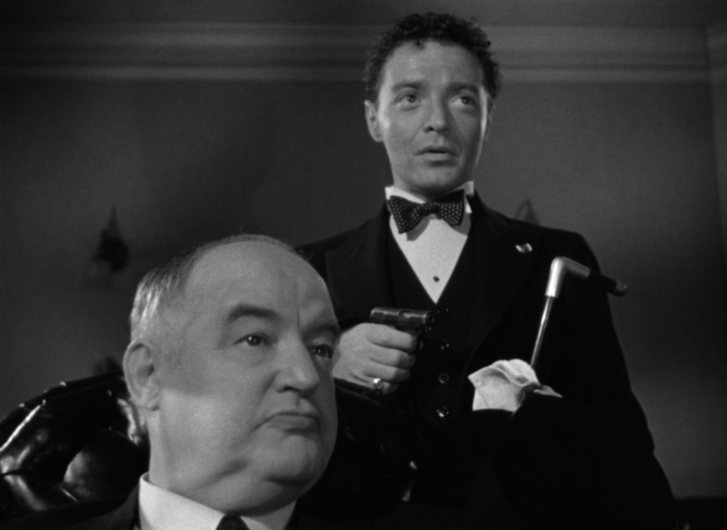 Frame from the 1941 public domain trailer for the Warner Bros. film The Maltese Falcon showing Sydney Greenstreet as Kasper Gutman and Peter Lorre as Joel Cairo.